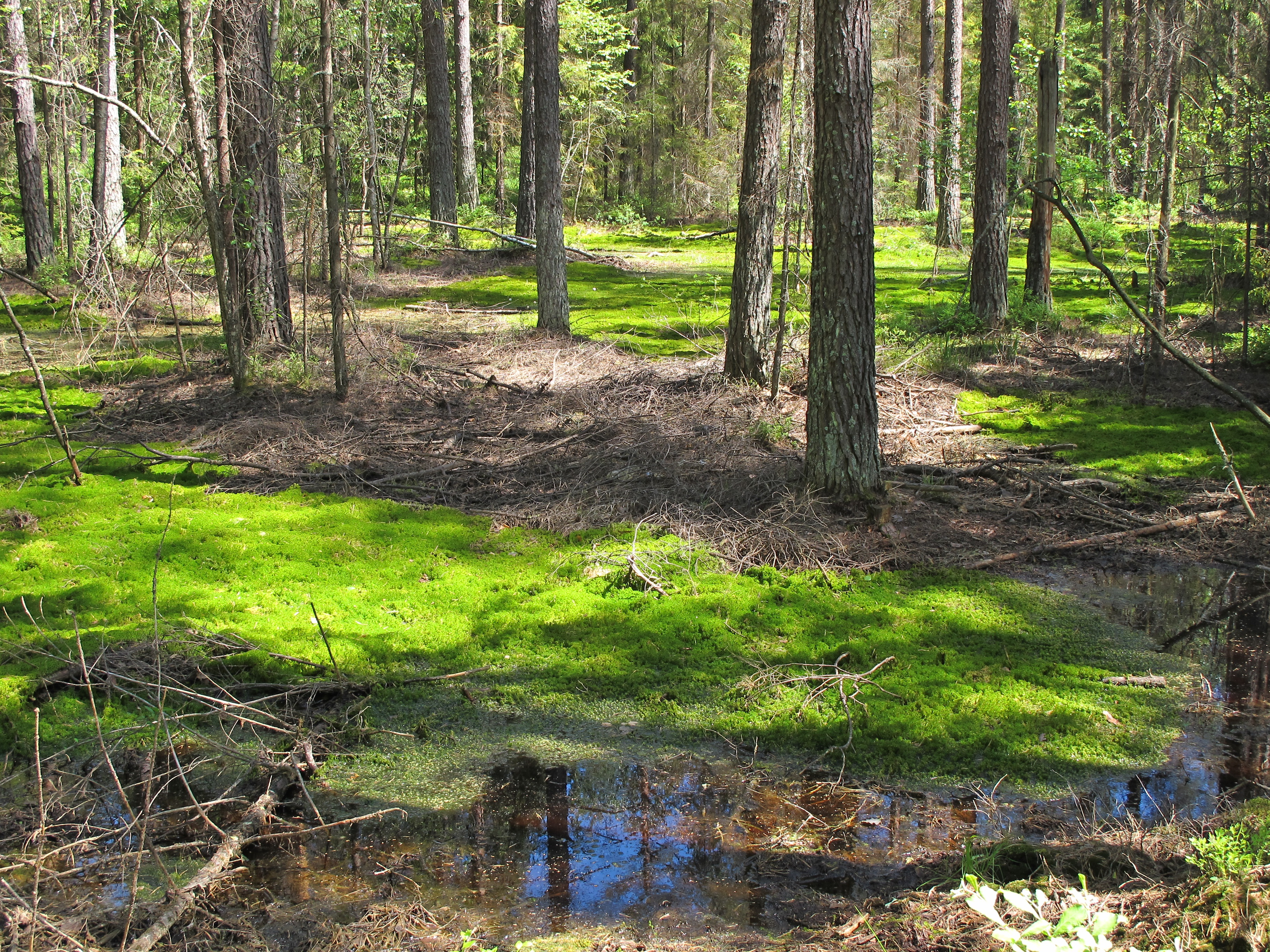 Knyszyn Forest near DK65/DW686 intersection (podlaskie, Poland)